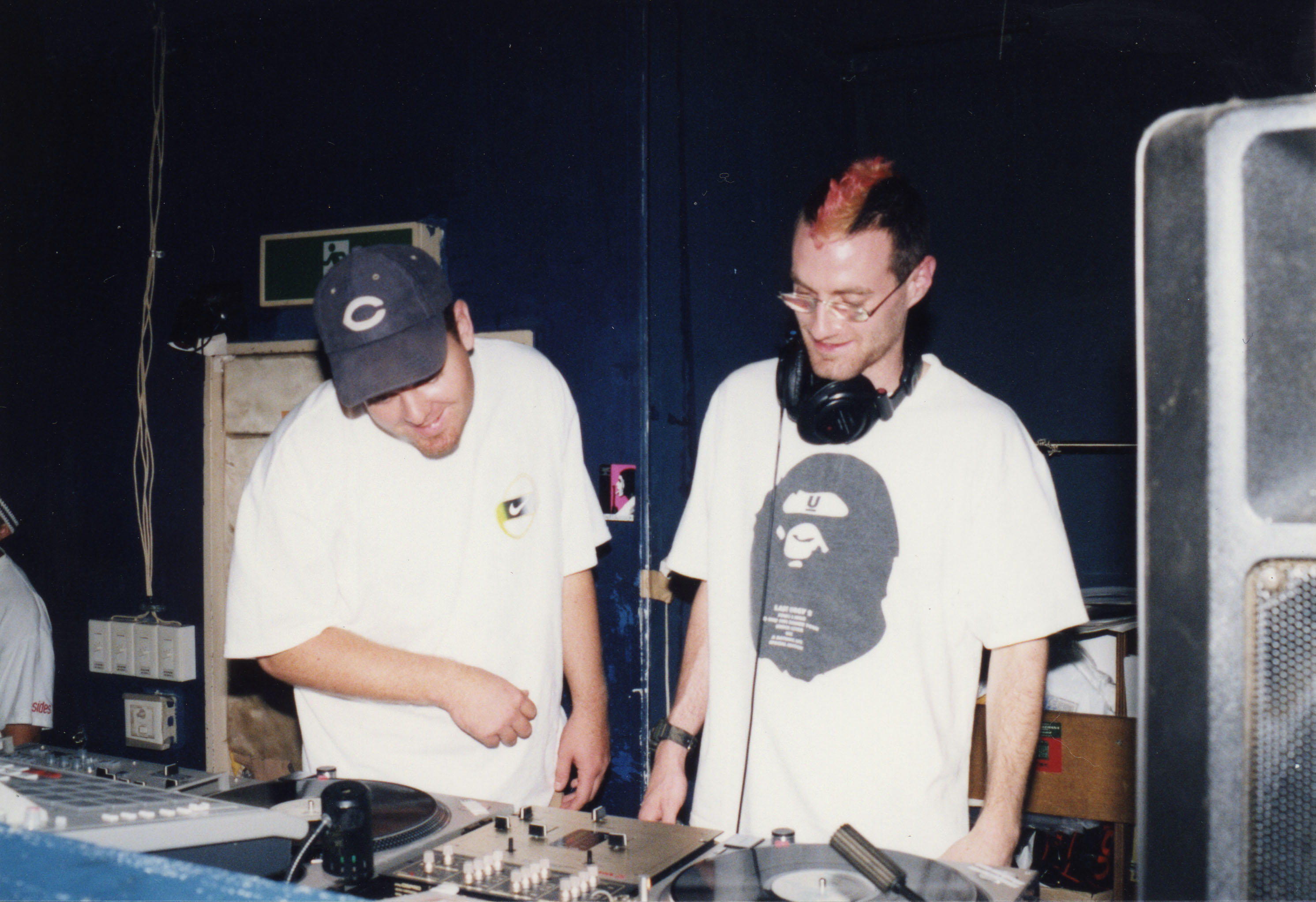 Launch party for MoWax Japan at club Blue in Tokyo, August 6, 1997. Original article archived at !